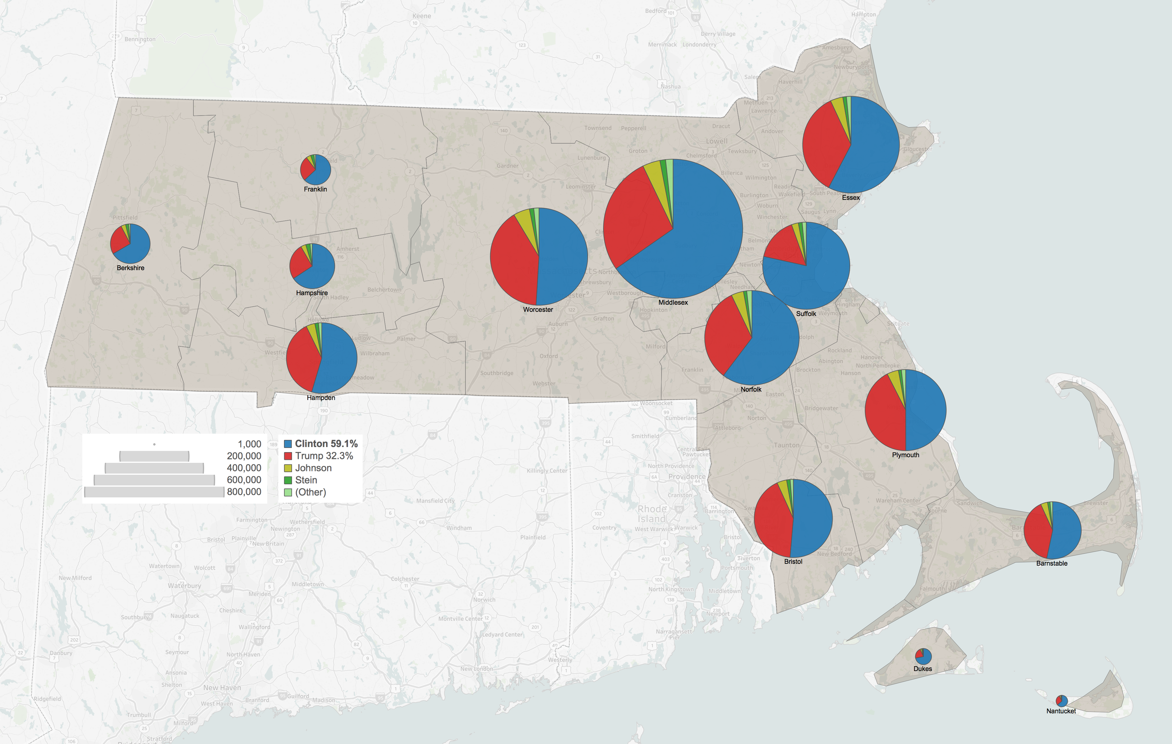 United States presidential election in Massachusetts results by county showing number of votes by size and candidate by color. Source: 2016 President General Election. William Francis Galvin, Secretary of the Commonwealth of Massachusetts. CountyClintonTrumpJohnson(Blank)(Other)Stein Barnstable72,43054,0995,3372,1311,9961,919 Berkshire43,71416,8392,5558918821,627 Bristol129,540105,44310,1804,5463,2883,689 Dukes8,4002,477366177172259 Essex222,310136,31616,2157,4195,8504,679 Franklin24,47810,3641,9027106651,412 Hampden112,59078,6858,3223,2353,0483,456 Hampshire55,36721,7903,0981,4311,3142,624 Middlesex520,360219,79332,44111,89513,63010,511 Nantucket4,1461,89226075102108 Norfolk221,819119,72315,6066,8476,4964,051 Plymouth135,513115,36912,5424,3294,5503,203 Suffolk245,75150,4217,9963,9244,6504,465 Worcester198,778157,68221,1986,1456,6355,658 } Date20 January 2017SourceOwn workAuthorDennis Bratland Licensing[edit]